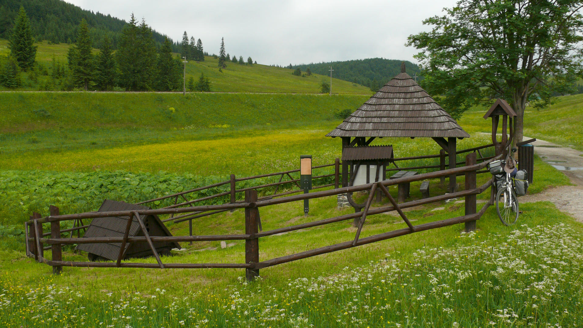 In this place is the source of river Hron